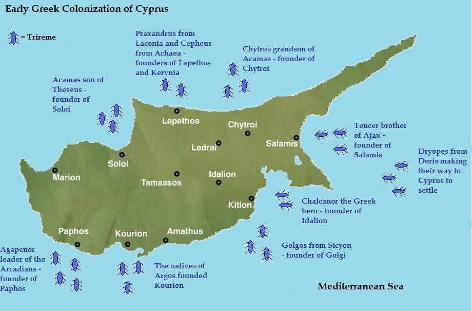 Image depicts the Early Greek colonization of Cyprus - from the book: Cyprus within the Ancient Greek World by Panayiotis Georgiou